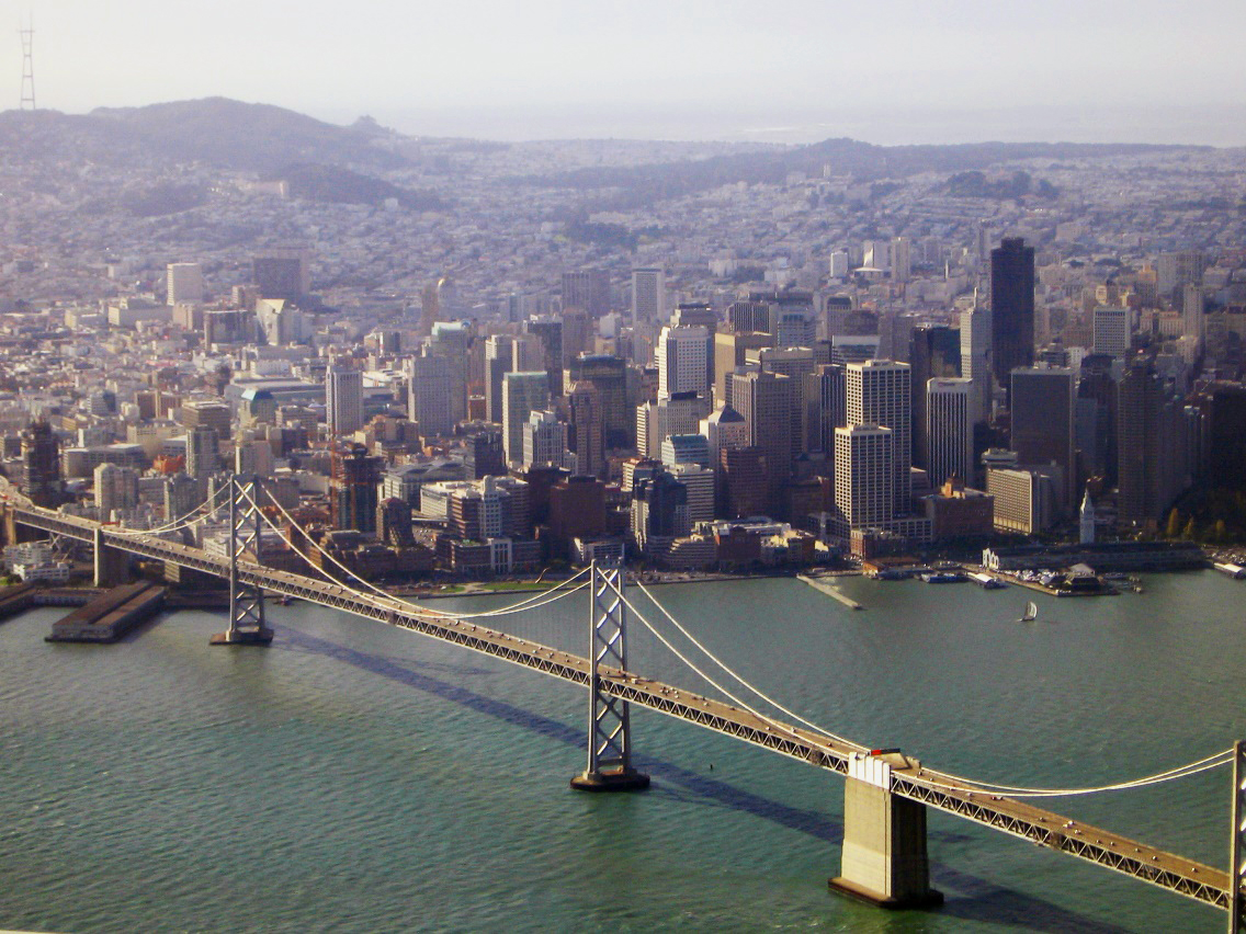 The San Francisco skyline and the western span of the San Francisco-Oakland Bay Bridge taken from the air.